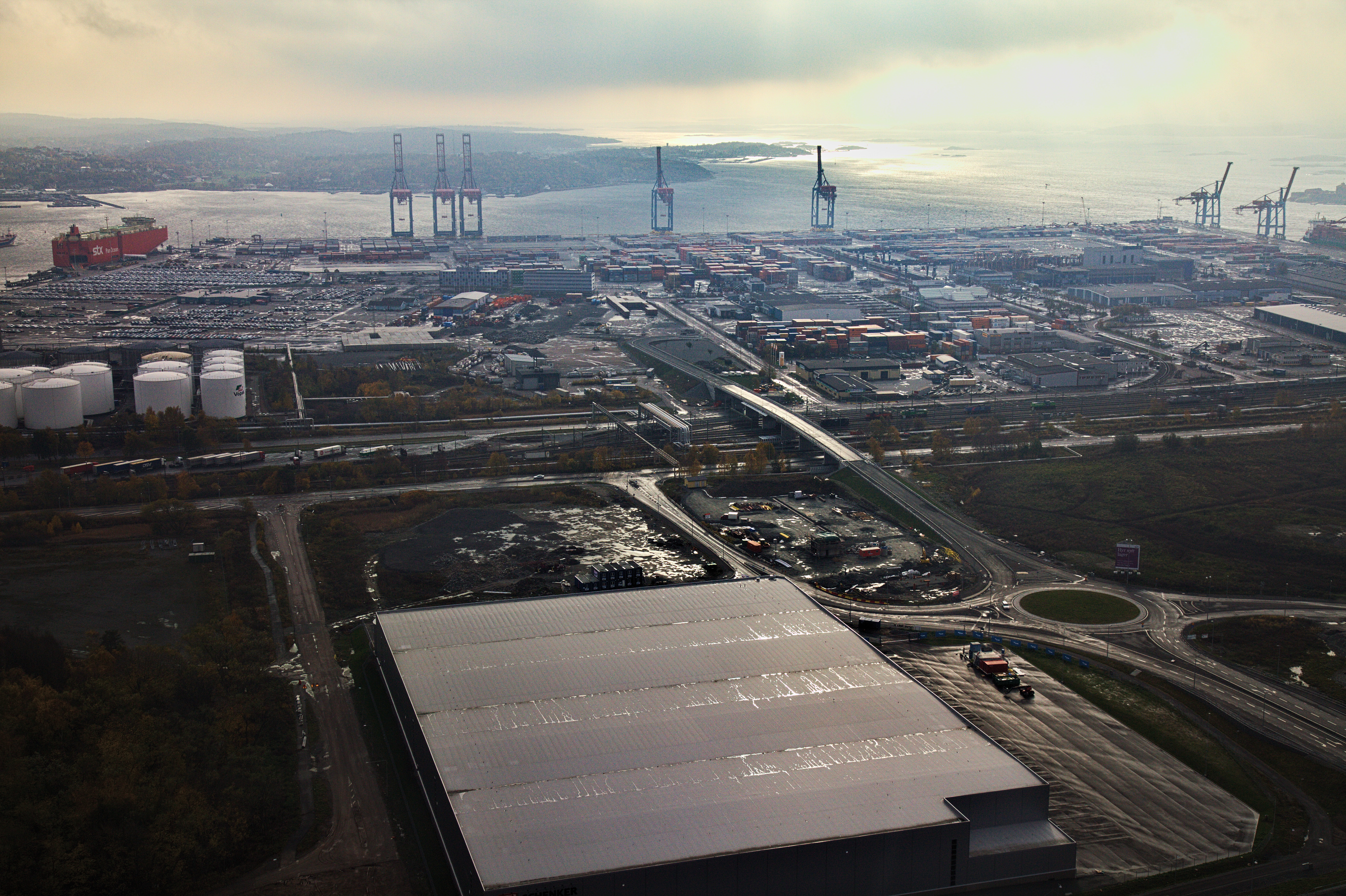 Photo taken on a helicopter over Gothenburg